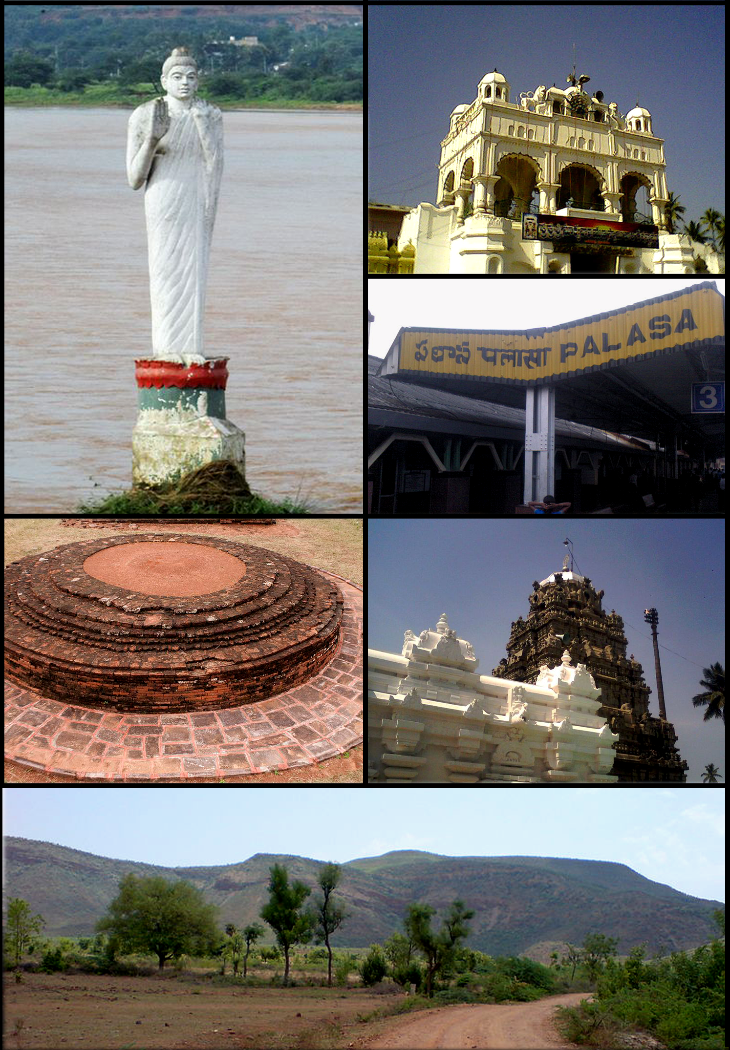 Srikakulam district Montage